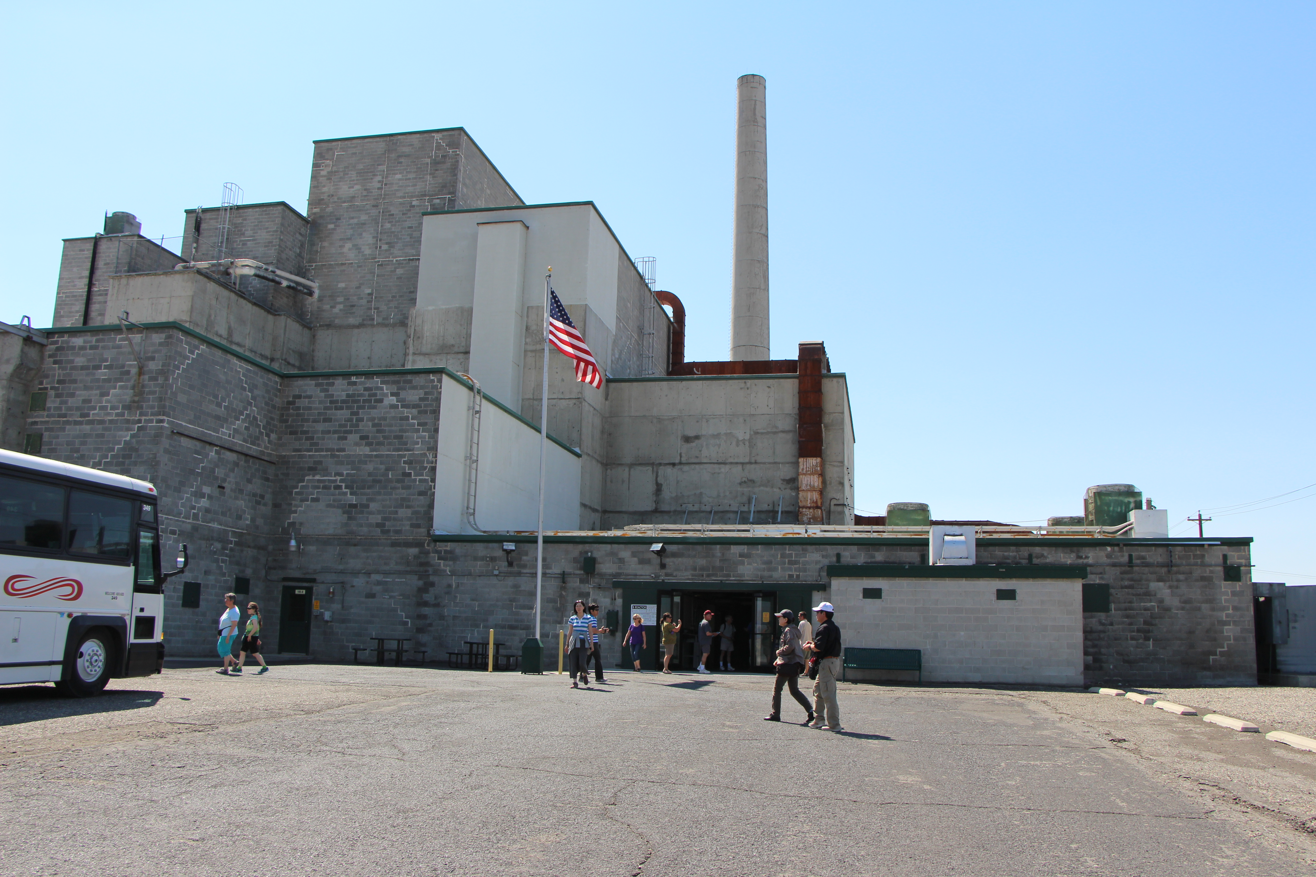 B Reactor, Richland